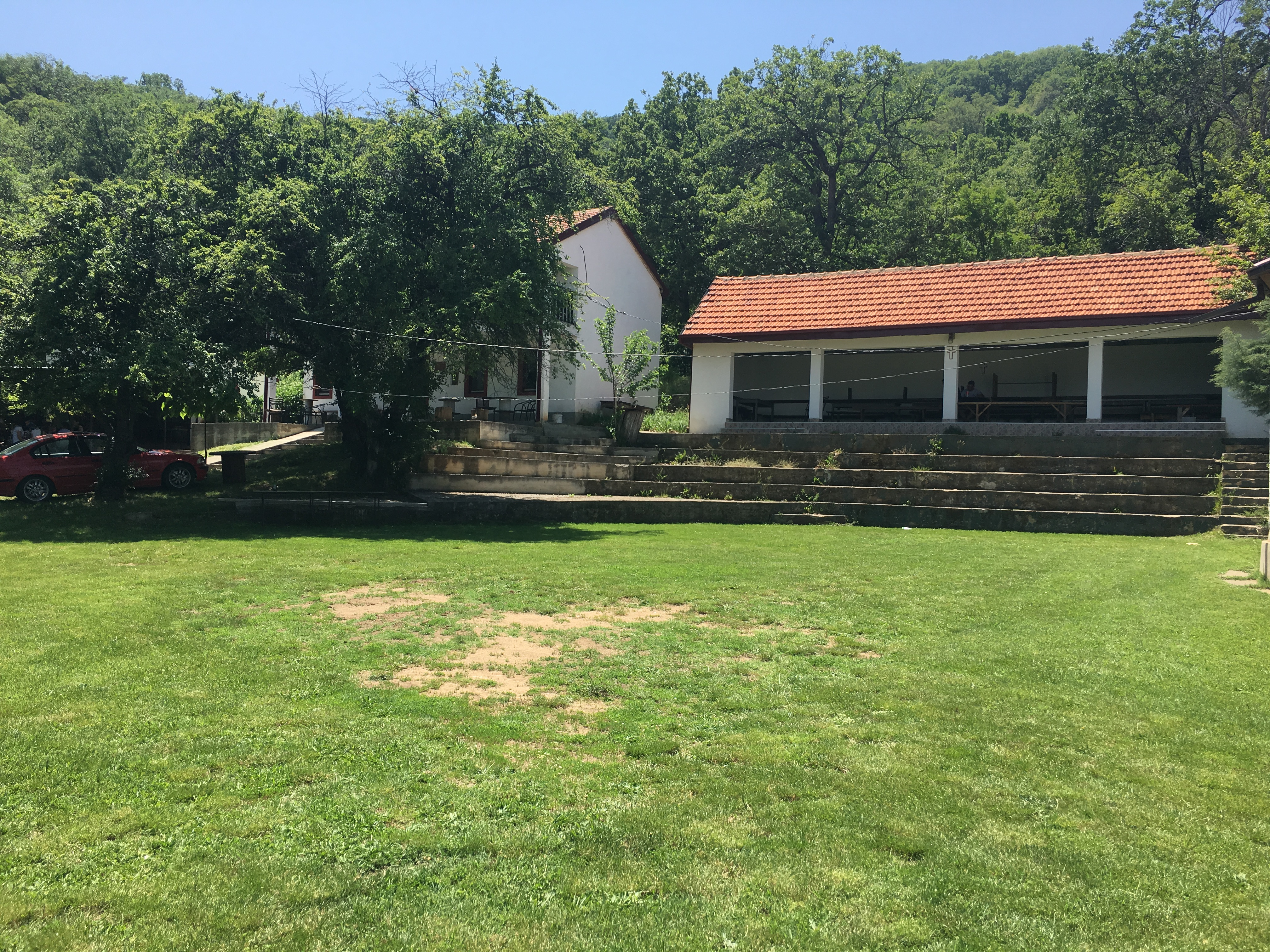 Beranci Monastery's yard